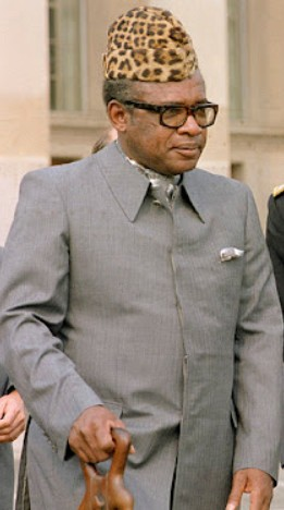 A jacket with a high collar, worn without a shirt, that was a promoted costume in Zaïre under the regime of Mobutu Sese Seko